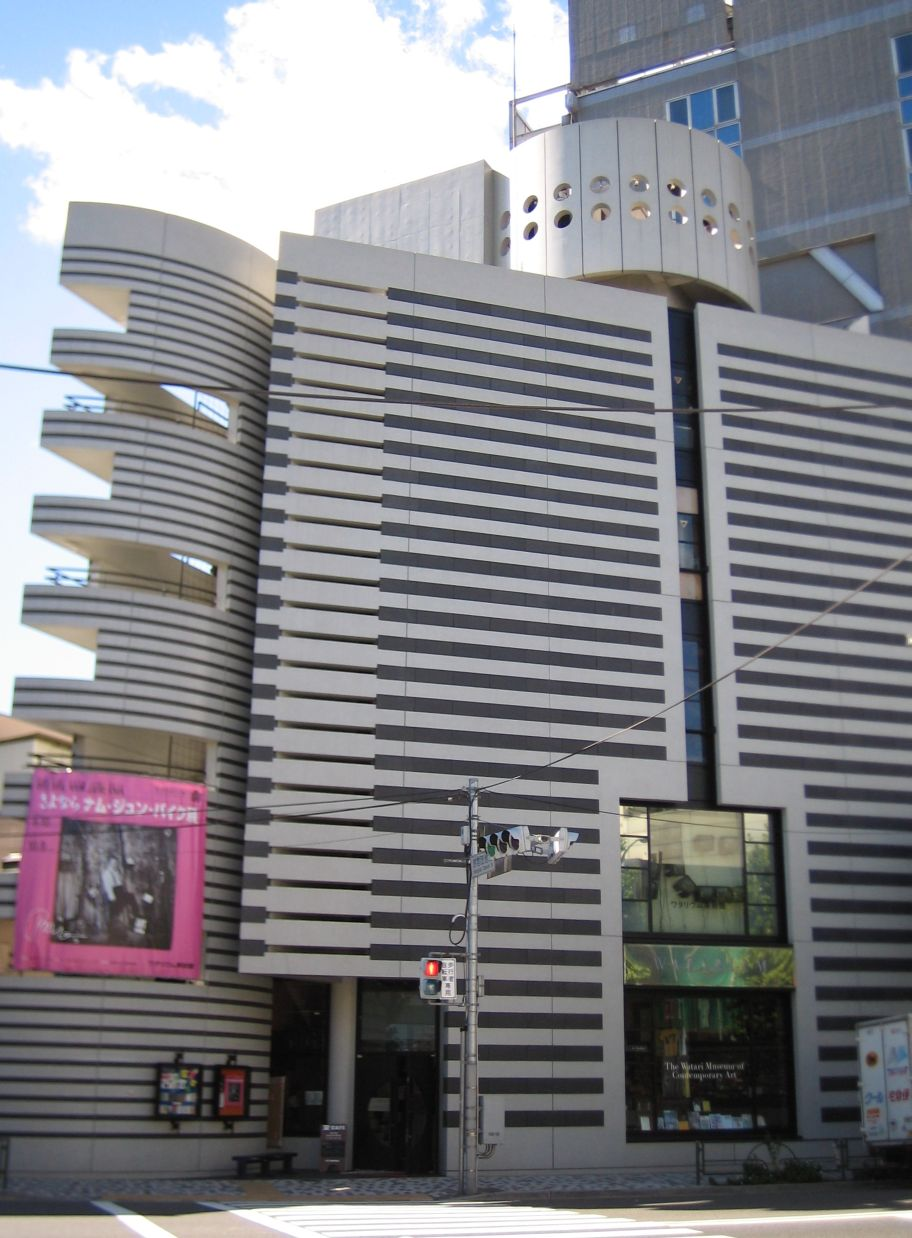 ワタリウム美術館 (Watari Museum of Contemporary Art)